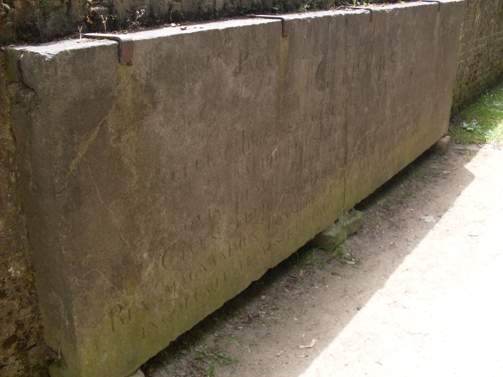 Rembrance stone of the old Menin gate.